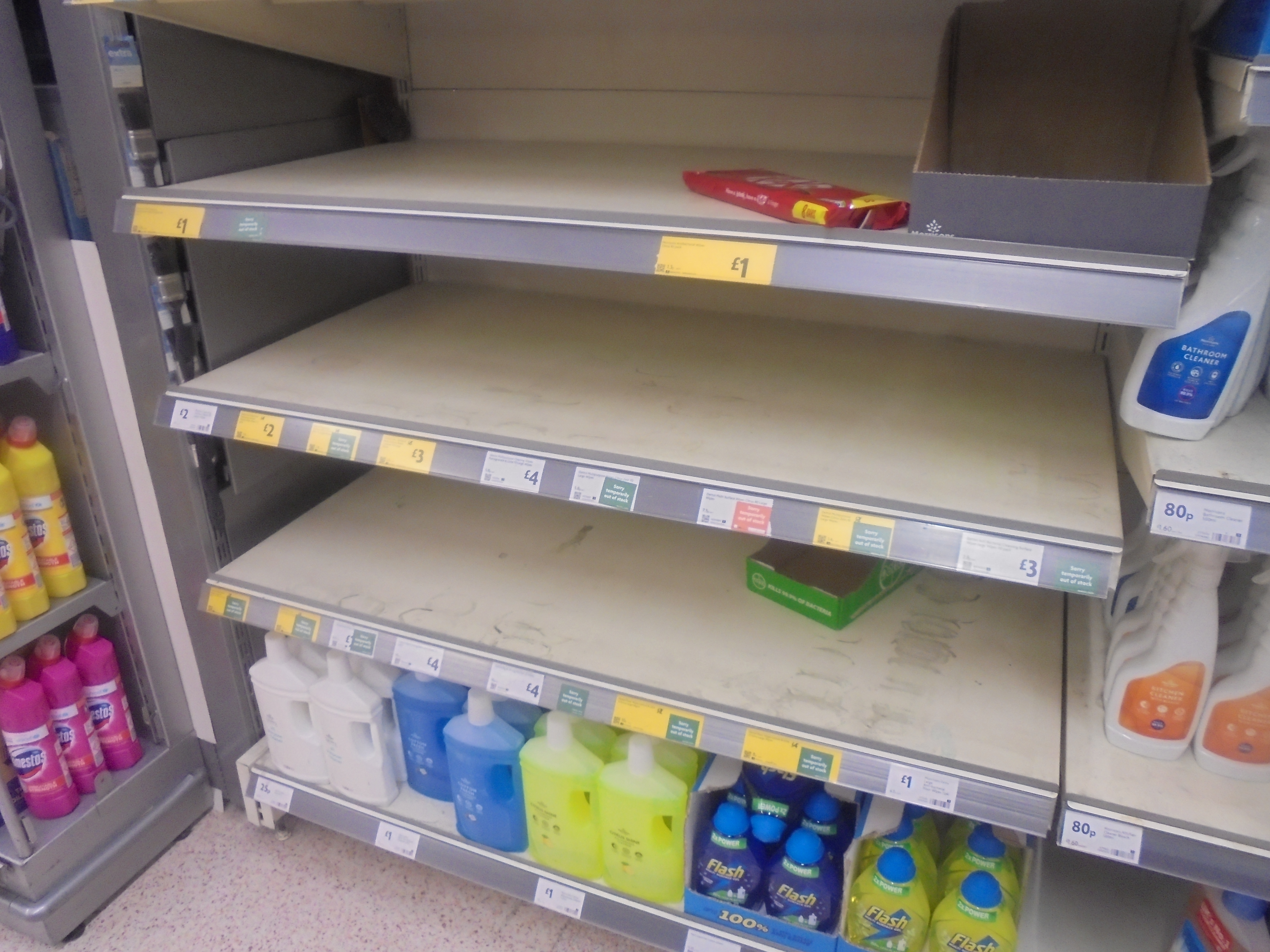 Cleaning products sold out at Morrisons, Merrion Centre, Leeds, West Yorkshire. Taken on later afternoon of Friday the 5th of March 2020.